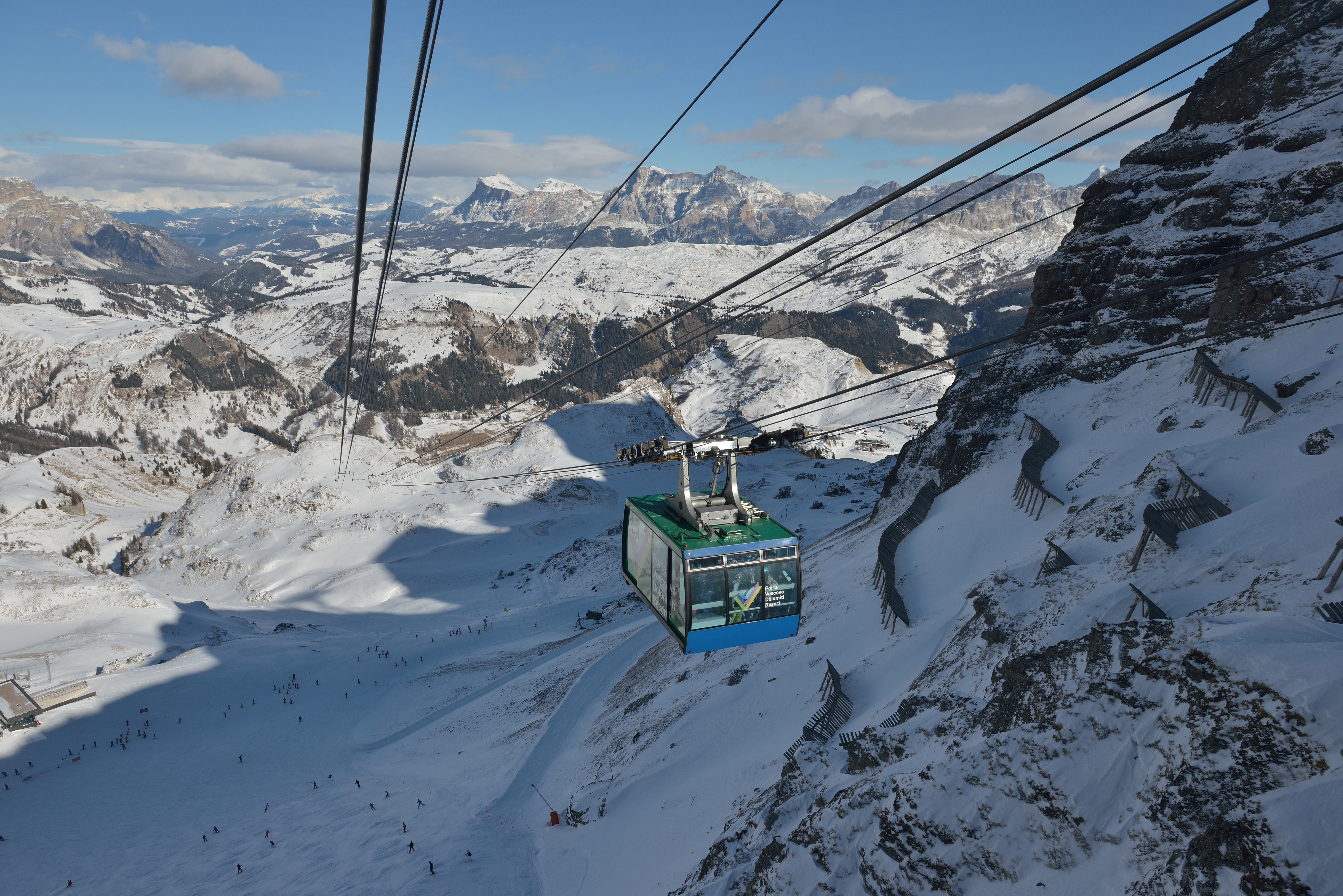 Cablecar type Funifor Arabba Porta Vescovo in Italy